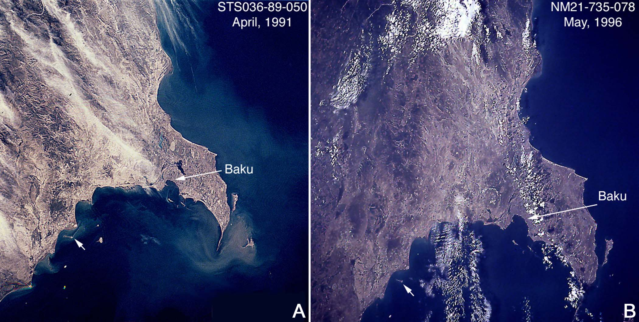 Apsheron Peninsula, Azerbaijan: NASA photographs (A) April 1991 (STS036-089-050); (B) May 1996 (NM21-735-078). Rising waters are a concern for petroleum production facilities on- and offshore around the Apsheron Peninsula. Subtle changes due to rising sea level can be seen along this coastline, where topographic relief is higher, by comparing the two views (arrows).